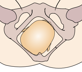 The left occipito-anterior variant of cephalic presentation